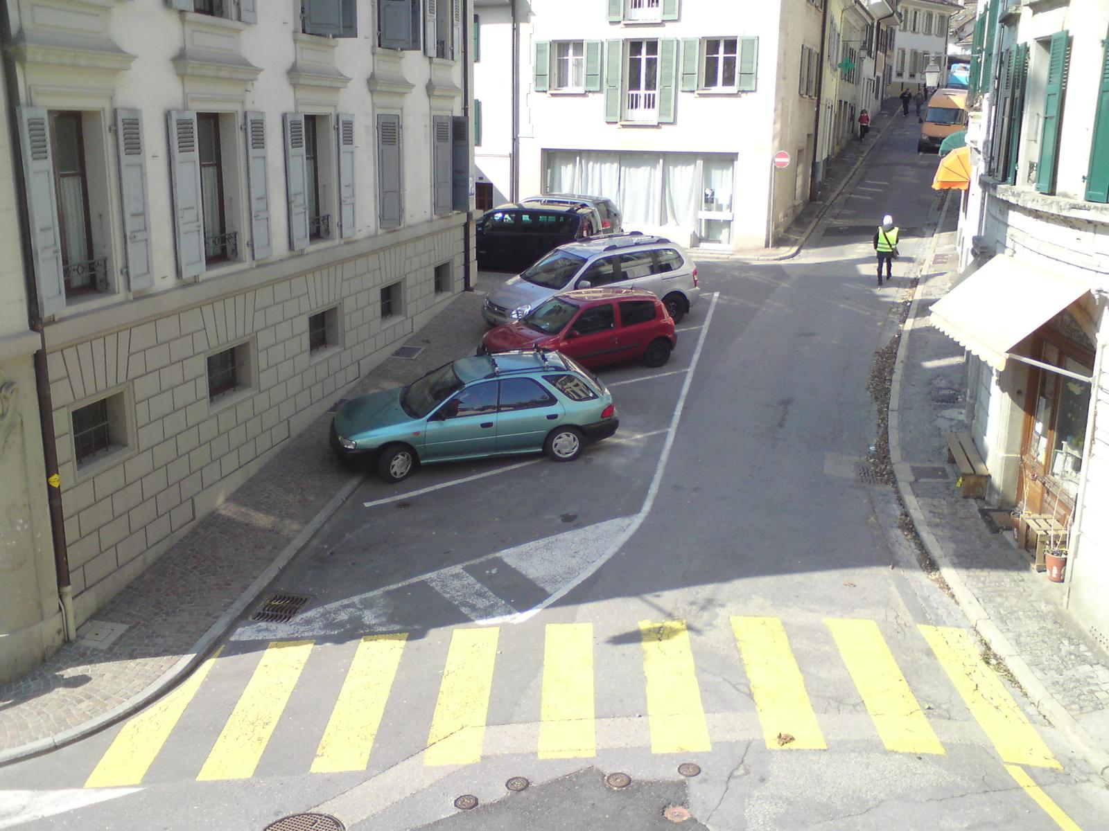 Street in Aubonne, VD, Switzerland